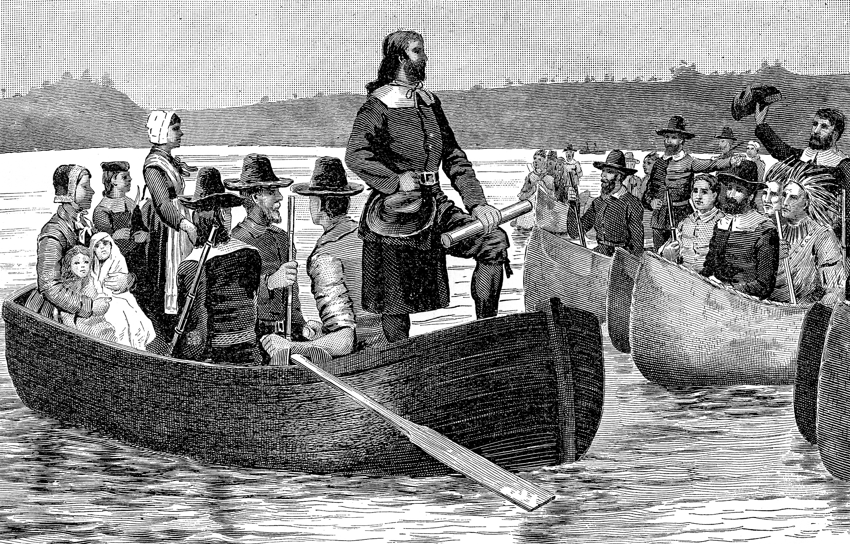 Return of Roger Williams from England with the First Charter, 1644. From a painting by C.R. Grant. Engraving from The Providence Plantations for 250 Years, Welcome Arnold Greene, 1886.